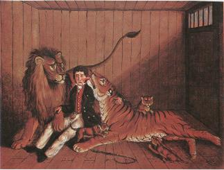 A painting of an animal trainer, a lion, a tiger, and 3 hybrid offspring from the 19th century.